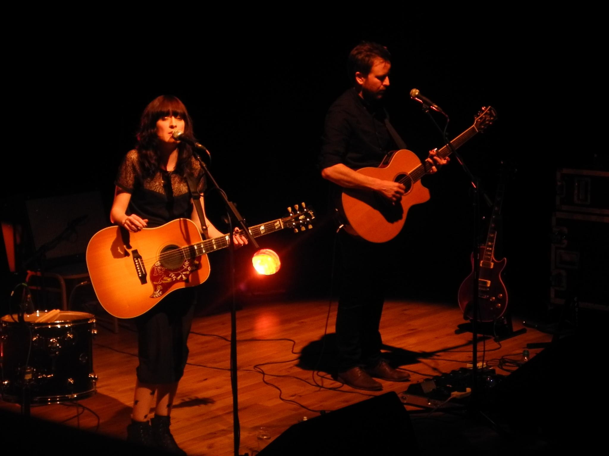 Photo taken on 16th May 2013 of Paper Aeroplanes, performing at Junction 2, Cambridge.